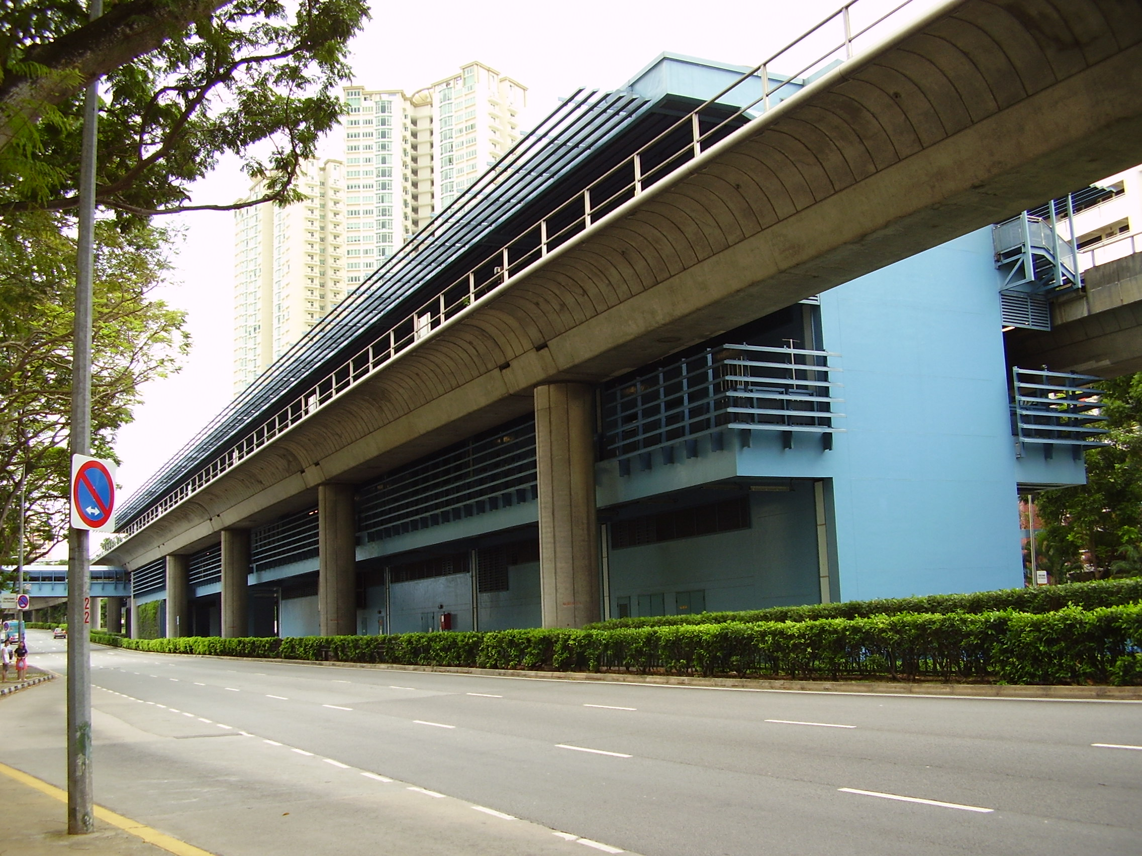 Queenstown MRT station, Singapore.